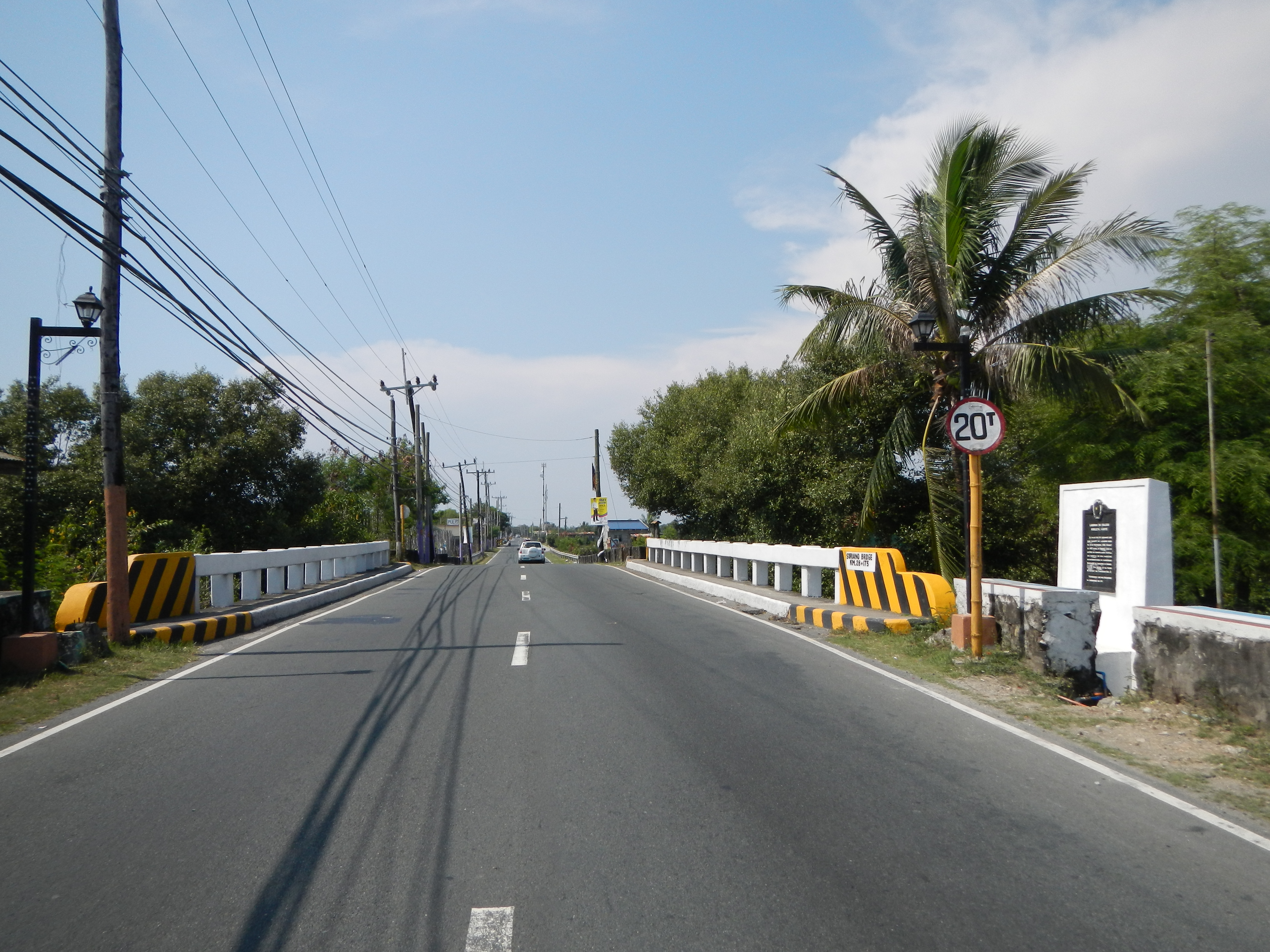 Battle of Noveleta[1] --- "Labanan sa Kallero" -- Calero (Soriano) Bridge, San Rafael IV, Noveleta, Cavite[2] - November 10, 1896 - was a major battle during the Philippine revolution and was one of the very first engagements of the revolution in Cavite. In the latter part of the revolution, Noveleta played a key role for the Magdalo[3] and Magdiwang factions. From its capture by the Magdiwang at the start of the revolution, various battles were fought and won by Filipino rebels in Cavite. Noveleta became the seat of the Magdiwang faction of the Katipunan.[4] The Battle of Calero Marker commemorates the battle at the bridge where 400 Spaniards were killed by Filipino heroes.[5] The Calero Bridge on the other hand was also a battle ground during the Philippine Revolution where the bravery of Filipinos prevailed over Spanish forces. Noveleta is home to a lot of revolutionary generals and a memorial marker for all of them is yet to be constructed by the local government. ---------[N.B. Photography of Noveleta, Cavite and Rosario, Cavite[6]: 30% cloudy and 70% sunny weather using my Nikon AW 100 waterproof shockproof camera. From Bulacan at 9:35 a.m., I took photo of the Baliuag Transit Original station, and at 11:38 a.m., the 5th Avenue LRT Station[7]; then I arrived at Rosario, Cavite and captured Noveleta Battle bridge at 2:08 pm, and then the Salinas Town or Rosario, Cavite at 2:33 pm and finished photography at 7:04 pm, and arrived at Bulacan at 11:30 pm after 4+ hours of travel by bus, and started uploading via slow internet at 11:40 pm - I hereby certify that these raw, original and unedited photos are exclusive for Commons and Wikipedia never uploaded in any Internet or any site, and for the public domain without any condition.]